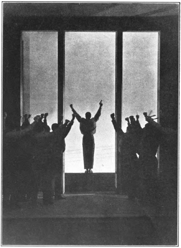 R. U. R. (Rosssum's Universal Robots). From Act III of the play by Karel Čapek, produced by Theatre Guild.